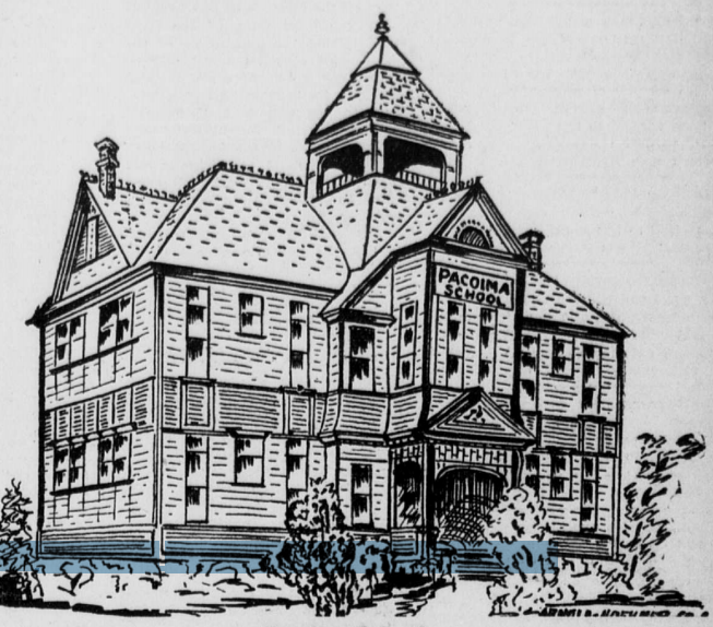 Sketch or drawing of Pacoima School, Los Angeles County, 1905